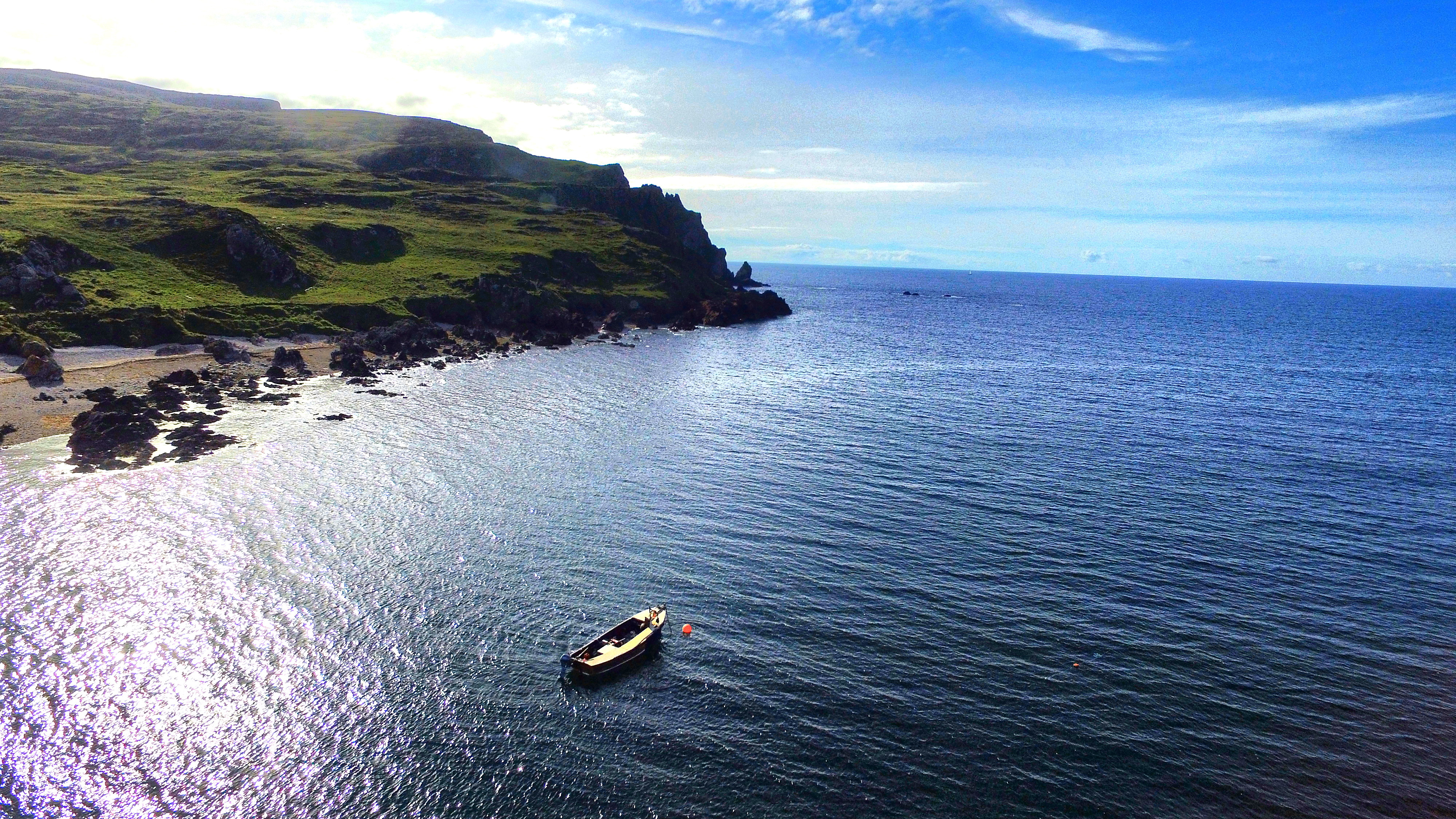 Roxtown beach clonmany (photo by Mark McGaughey)